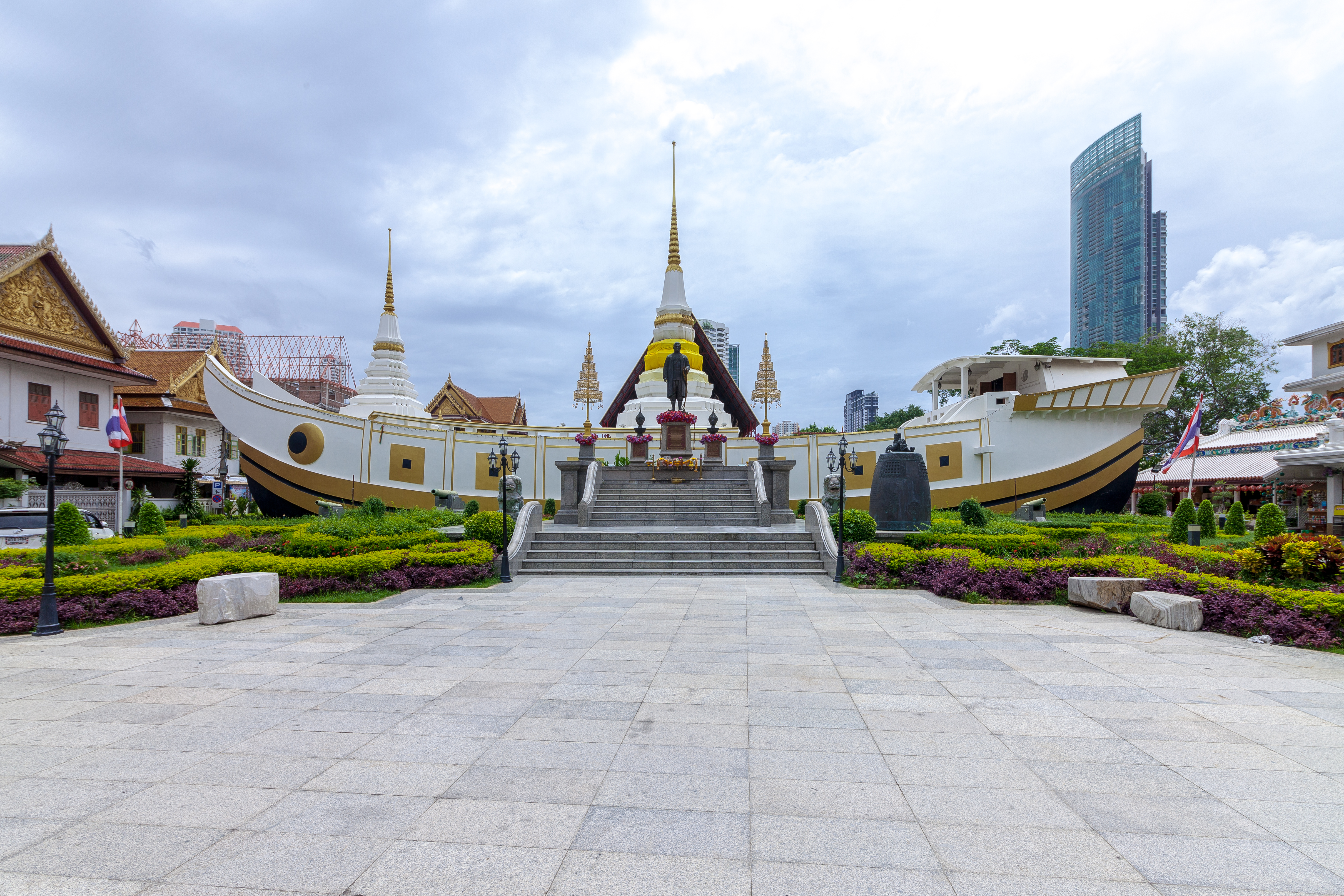 Junk at Wat Yannawa, Bangkok.